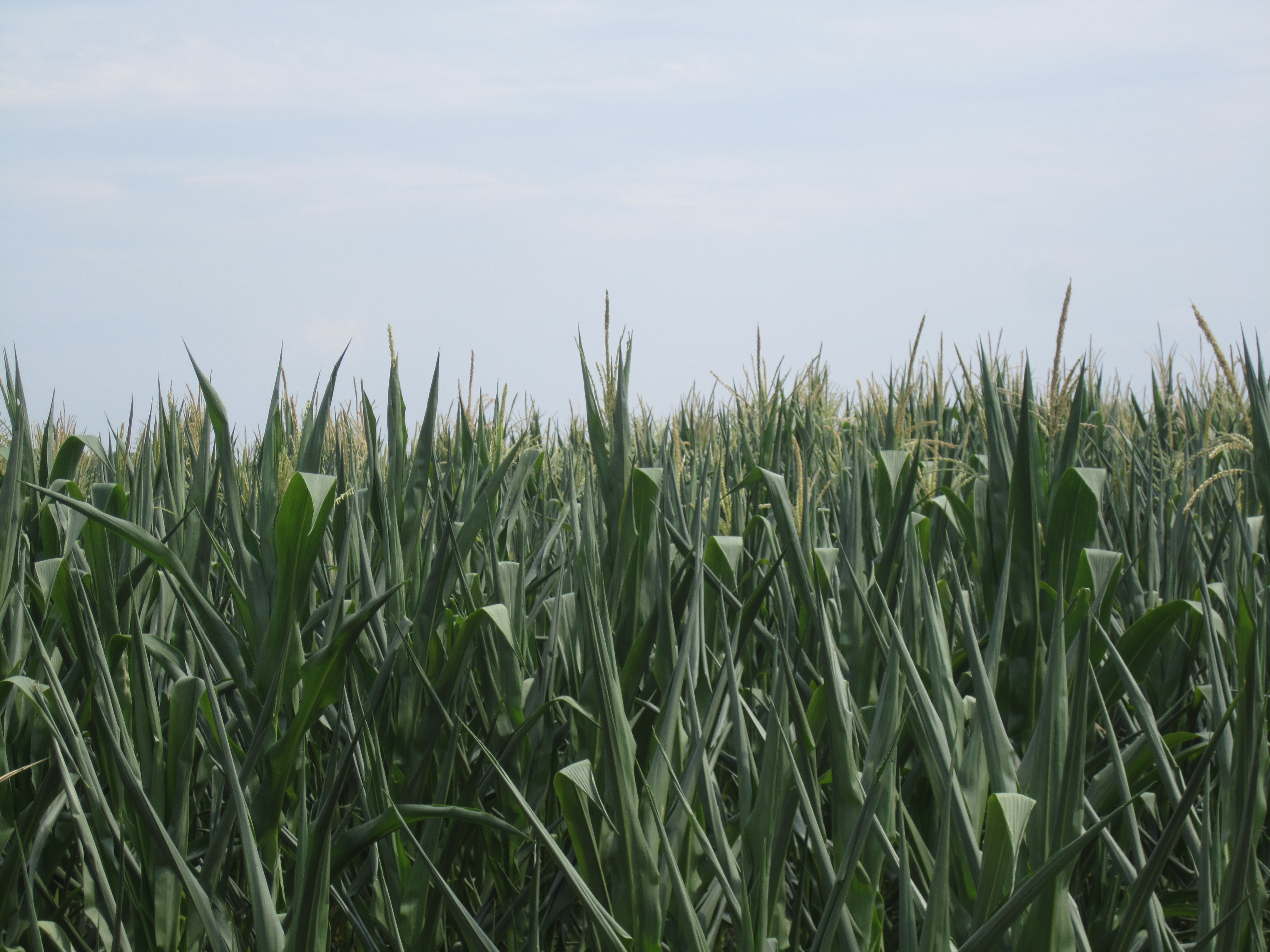 I took photo with Canon camera between Culpeper and Manassas, VA.